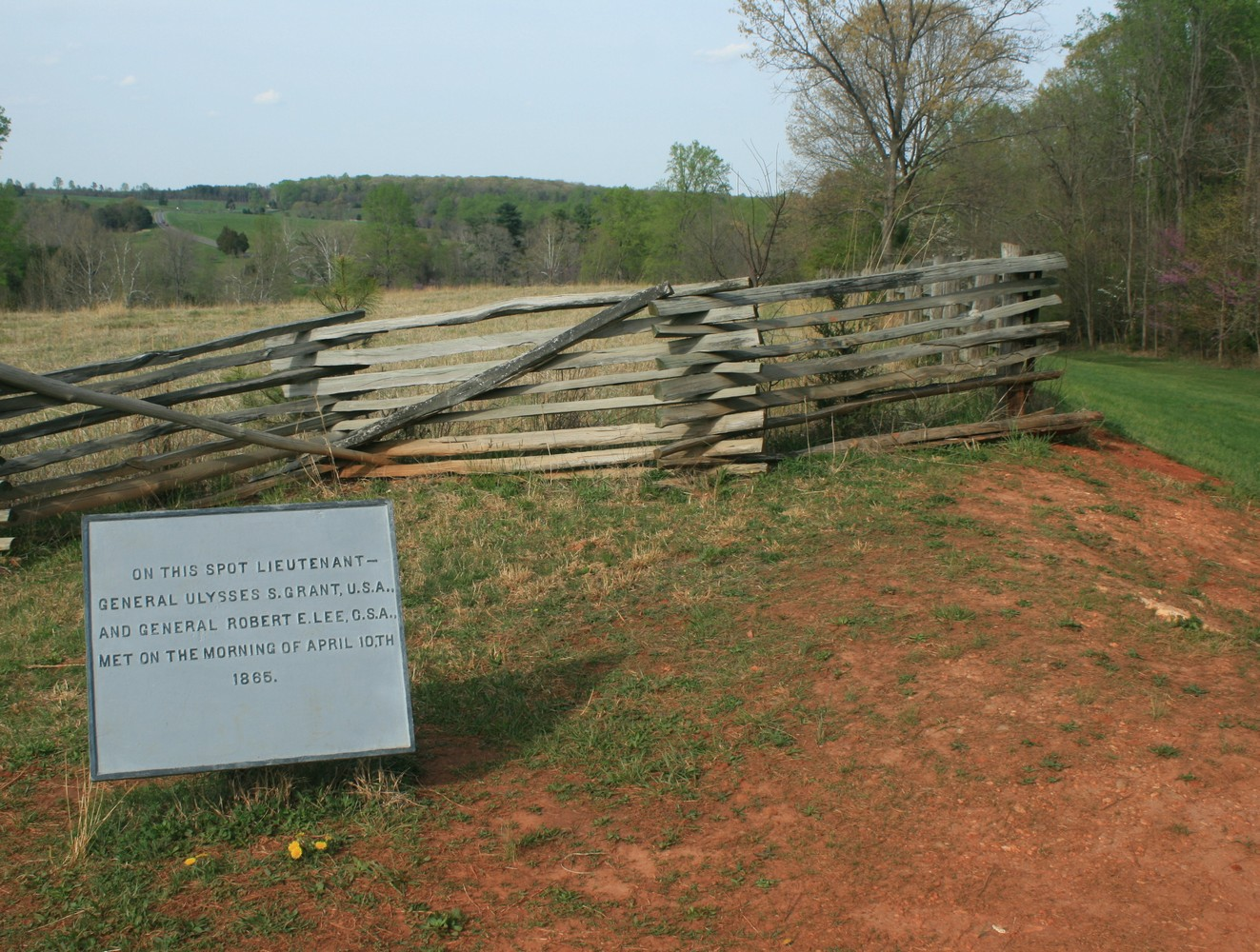 Appomattox, place of Lee and Grant meeting at morning April 10